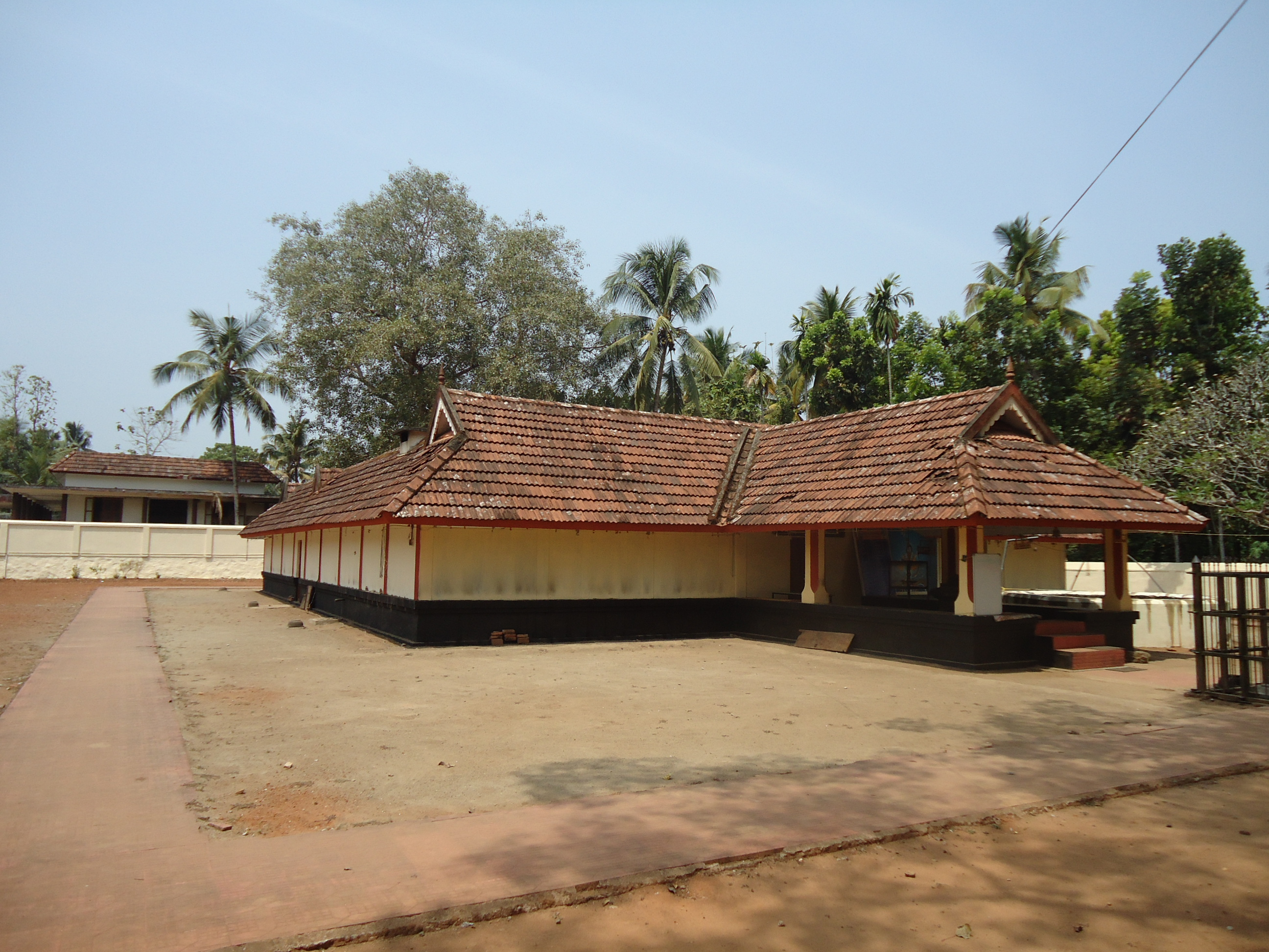 Puthoorpilli Sree Krishna Temple Manjpara Side View